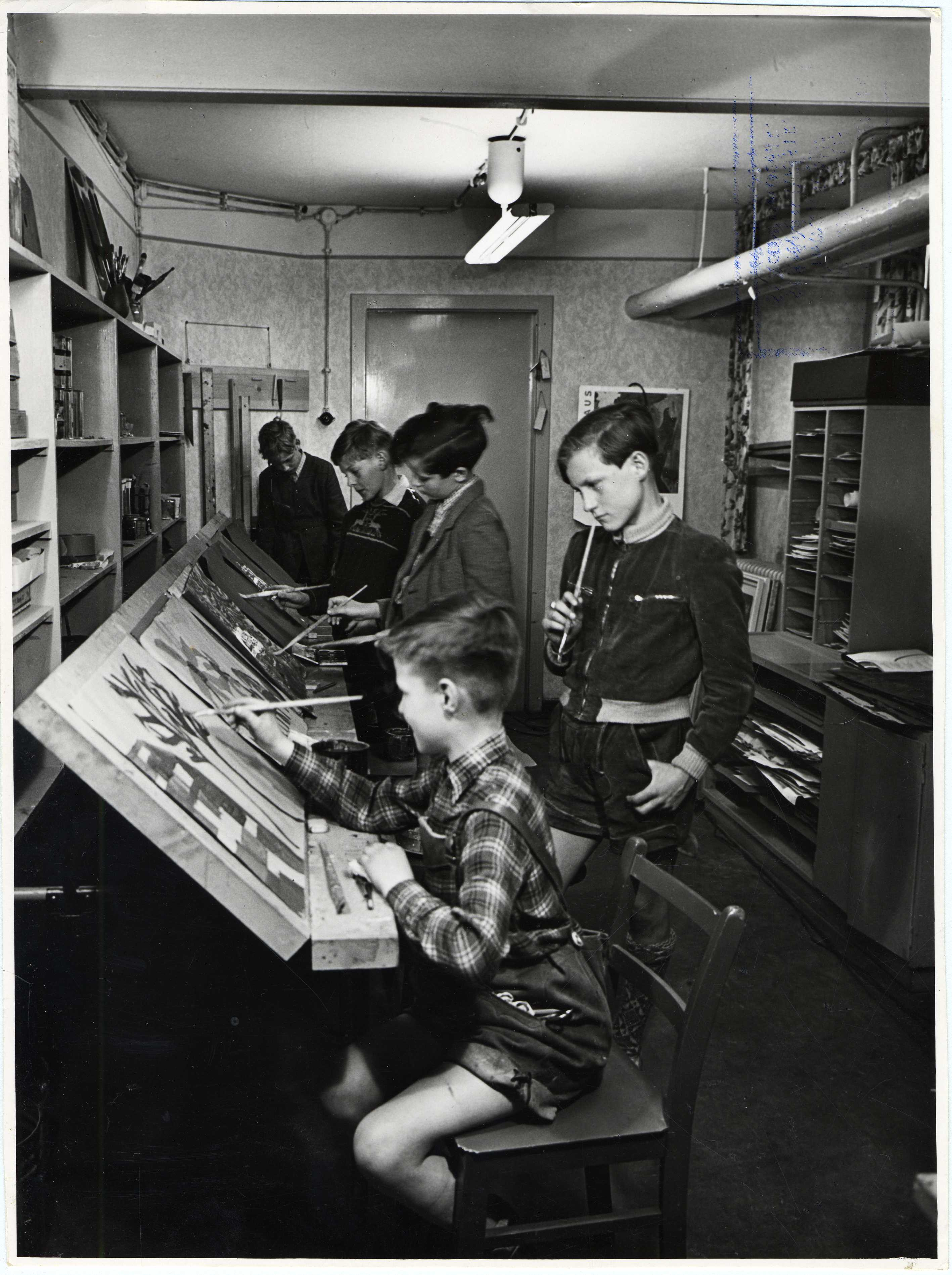 Children's Painting Class in the Basement, Germany. U.S. Information Center, Amerika Haus, Hanover, Germany.